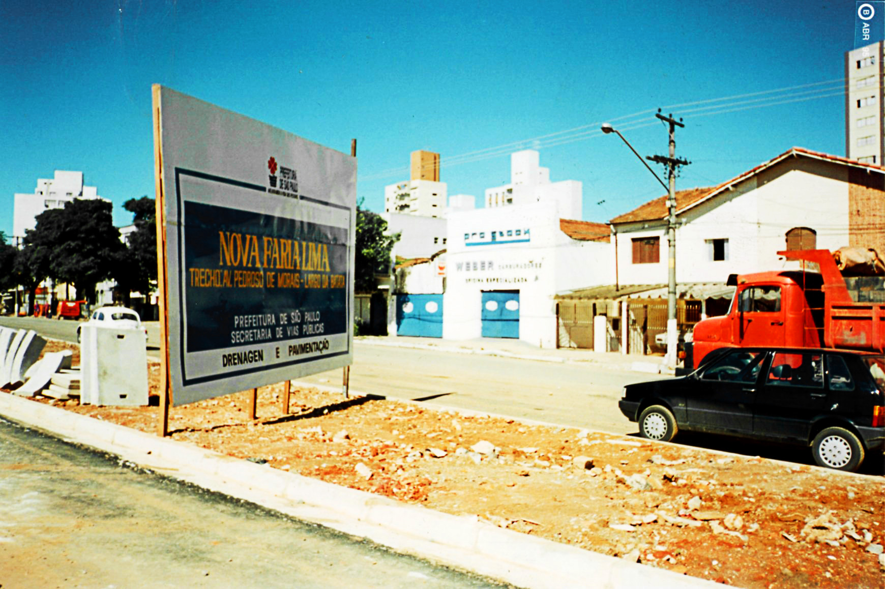 Construction of the extension of Brigadeiro Faria Lima Avenue, in April 1995.